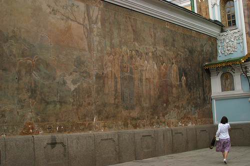 The frescoes of the Gate Church of the Trinity of the Kiev Pechersk Lavra in Kiev, Ukraine.